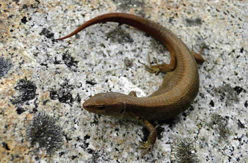 Euspondylus oreades, female (CORBIDI 07216).